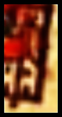 A piece of map of Paris, showing Hôtel de Testars in Rue de Braque. From this map: File:Rue de Braque 1572.jpg, see the annotation.